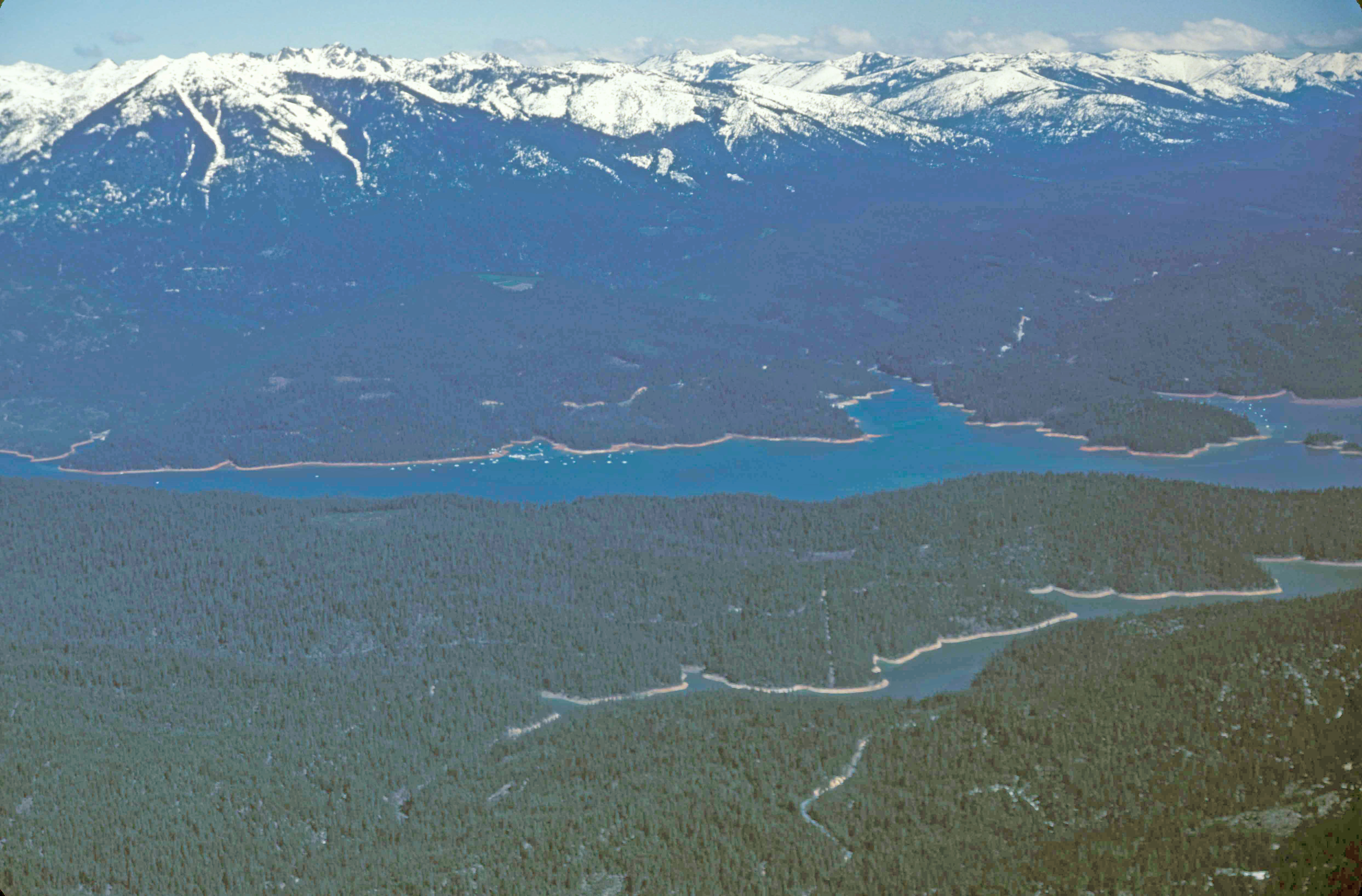 Scenic view of Trinity Lake (Clair Engle Lake) reservoir from afar — in Whiskeytown–Shasta–Trinity National Recreation Area. Located in Trinity County, Shasta-Trinity National Forest, northern California. Image from Public domain images website